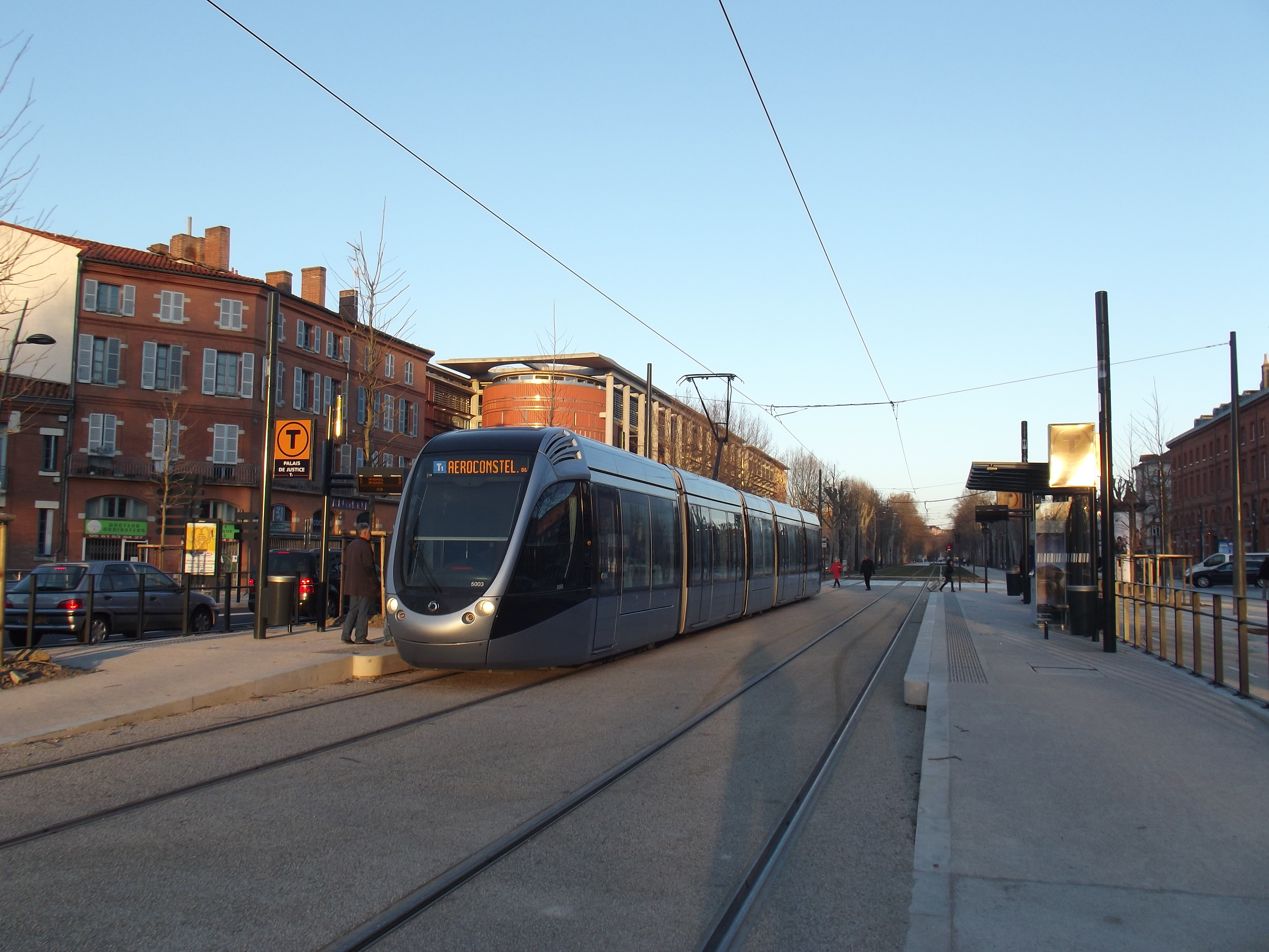 Tram at the terminus "Palais de Justice"